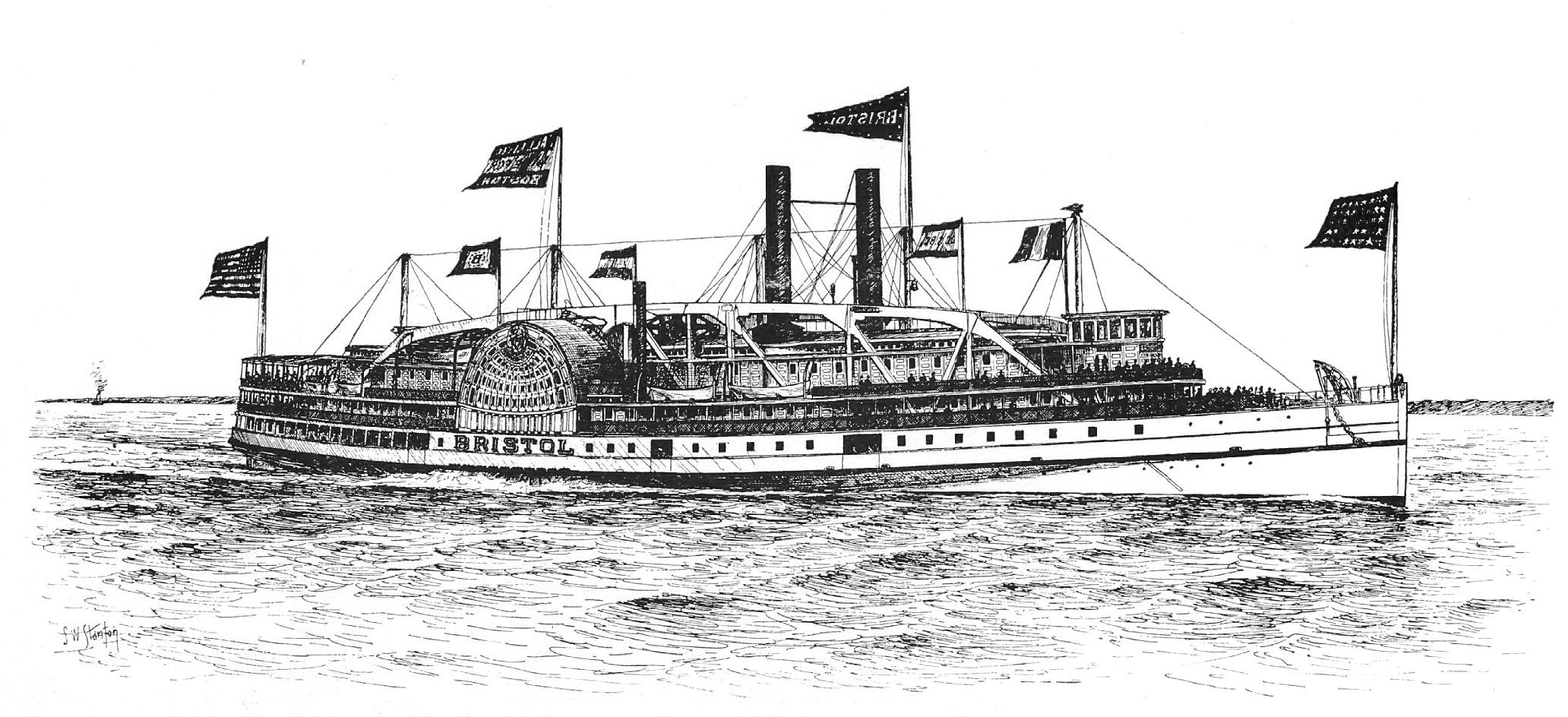 Long Island steamboat Bristol, page 192 of American Steam Vessels, by Samuel Ward Stanton.